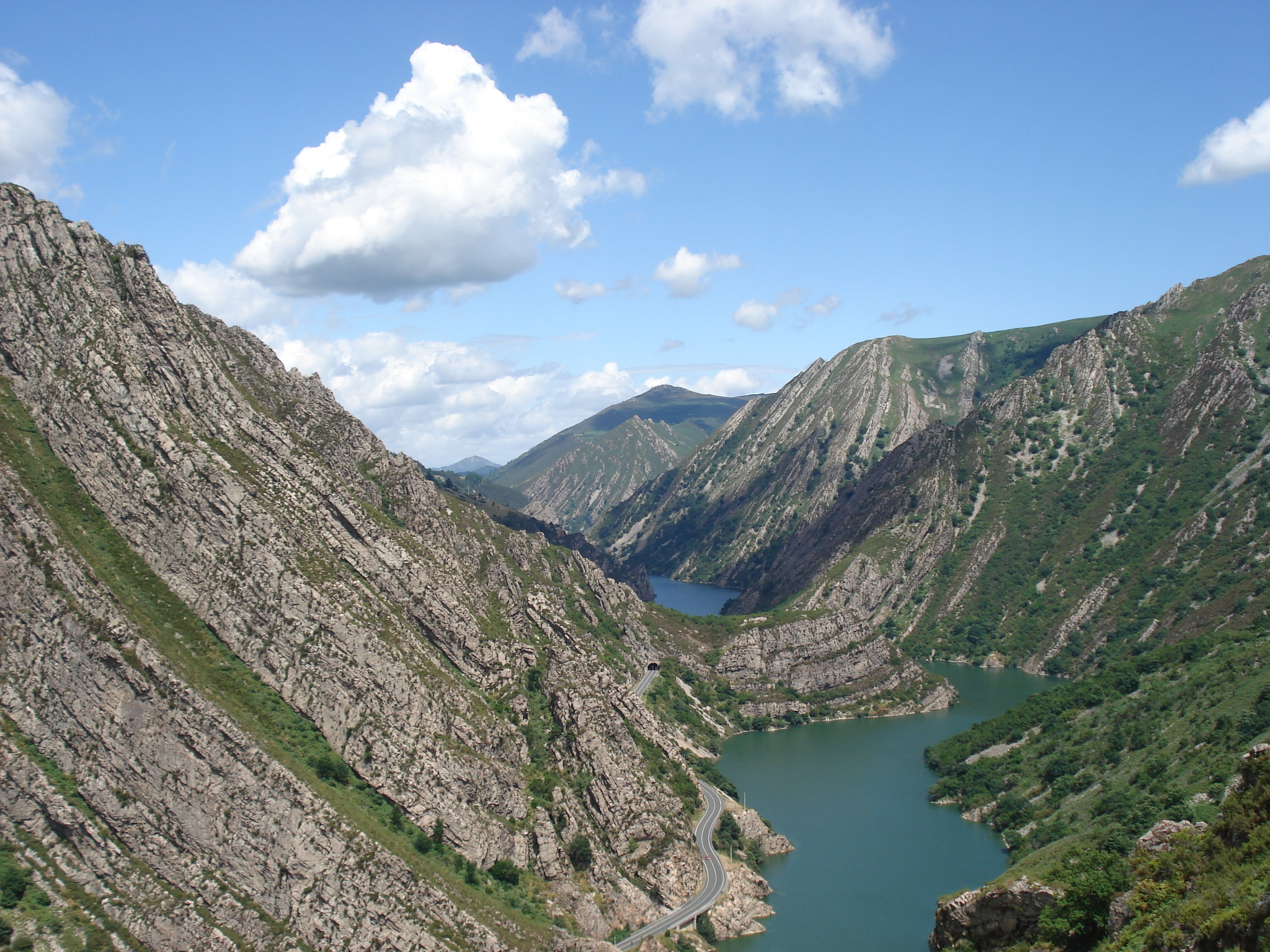 Quartzite folded after shortening during the Carboniferous period (320 million years ago). La Barca Syncline, also known as Villazón-Reigada Syncline, Asturias, Spain.